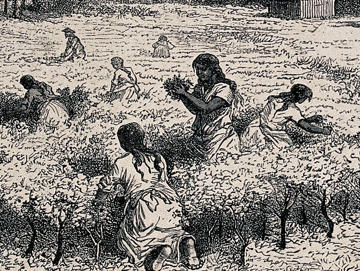 Women gathering leaves of the coca plant (Erythroxylum coca) in Bolivia. Wood engraving, c. 1867. Iconographic Collections Keywords: Henry Walter Bates; Opium